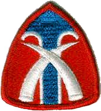 Emblem of the USARSUPTHAI